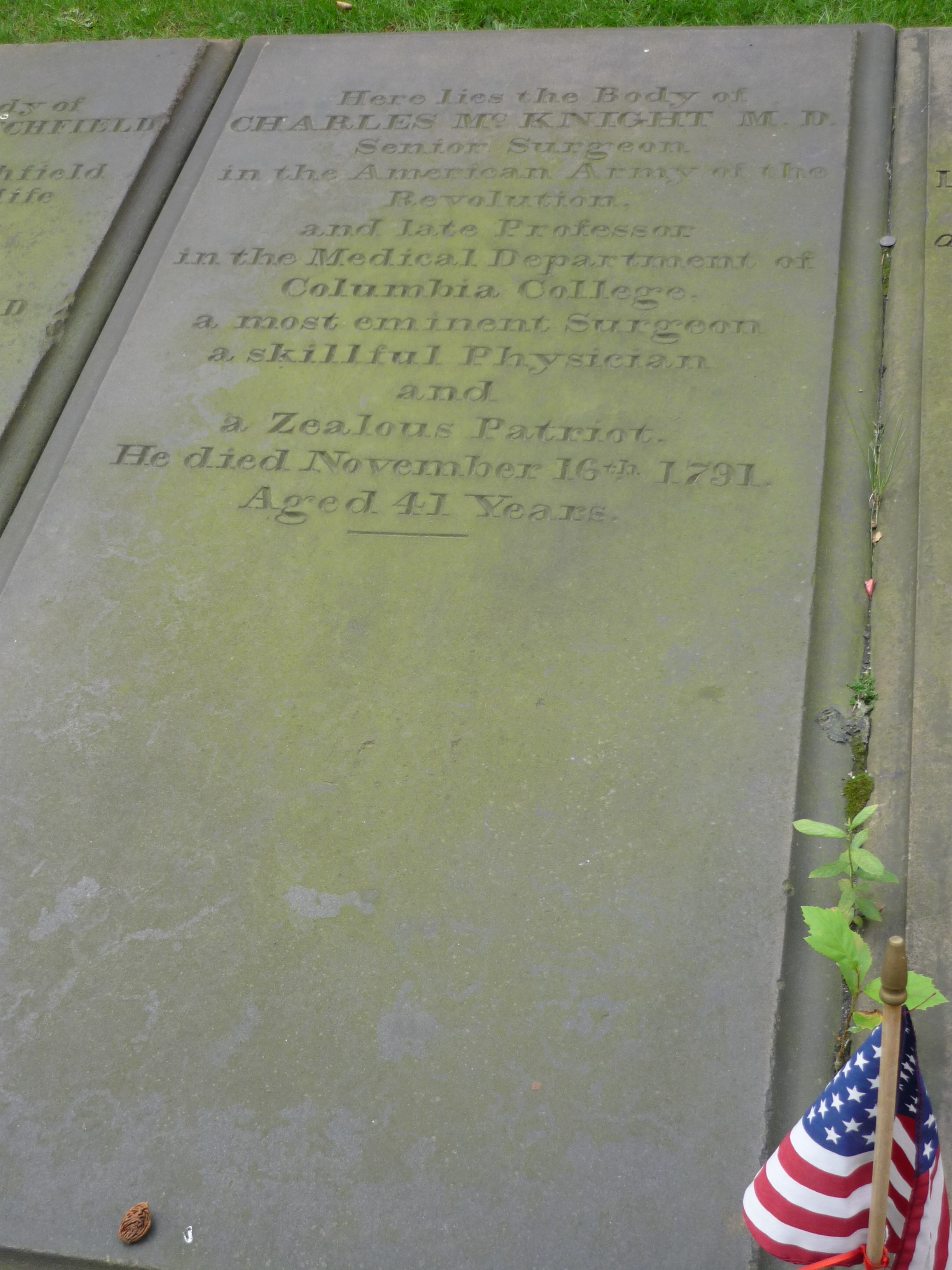 This photo is of Wikis Take Manhattan goal code G13, Charles McKnight.